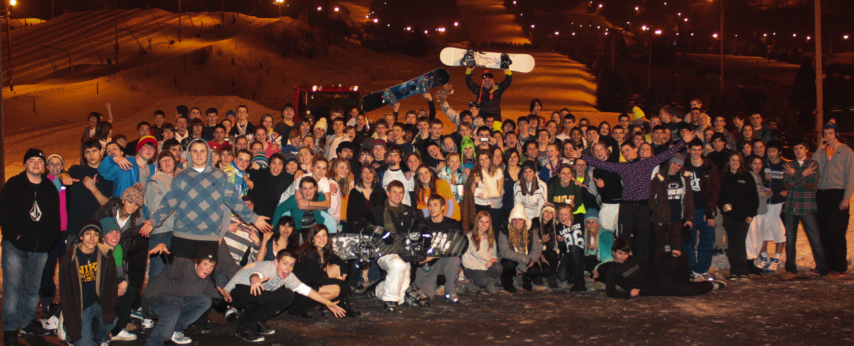 The Council Rock North Ski & Snowboard Club up at Blue Mountain in 2011